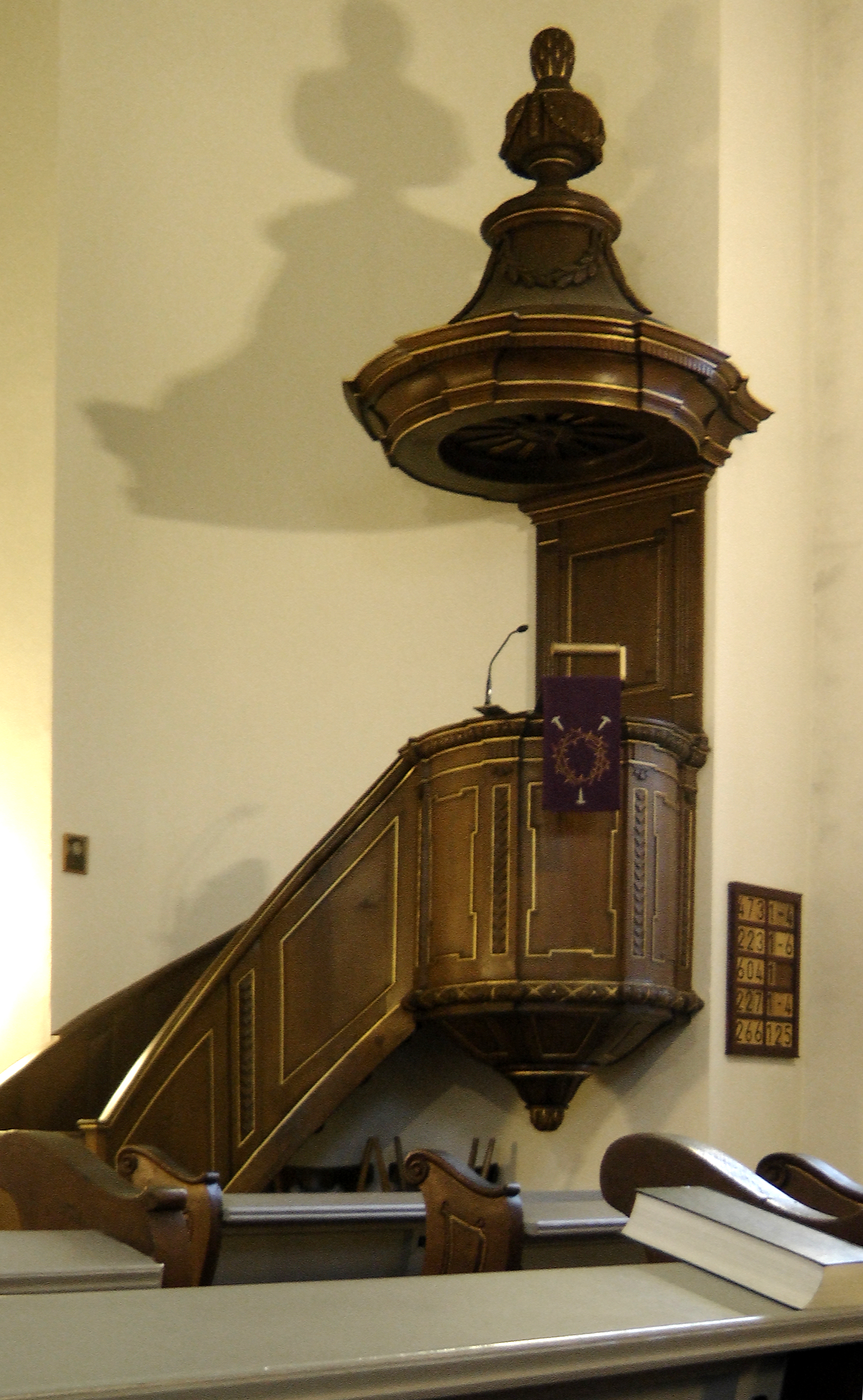 Simultaneum Brauneberg - protestant part - pupilt